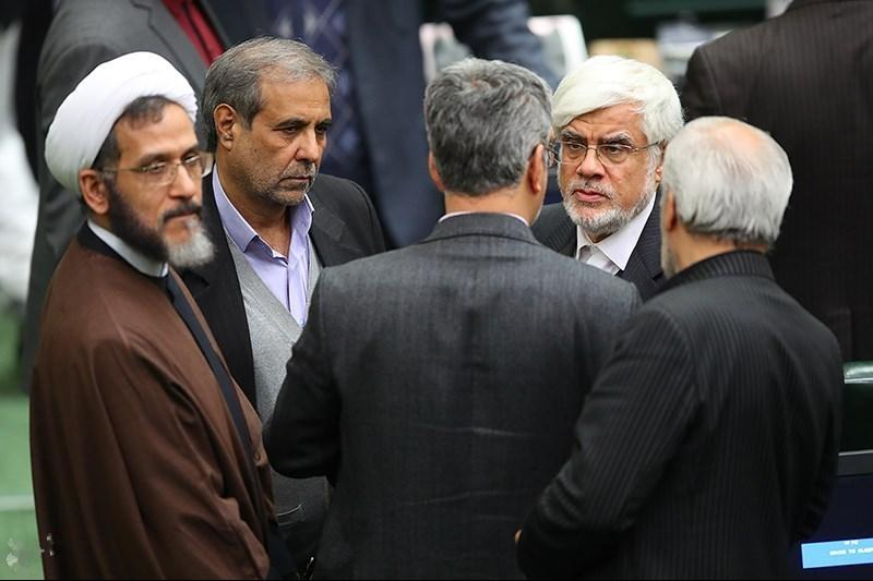 Plasco disaster report inIslamic parlement Iran